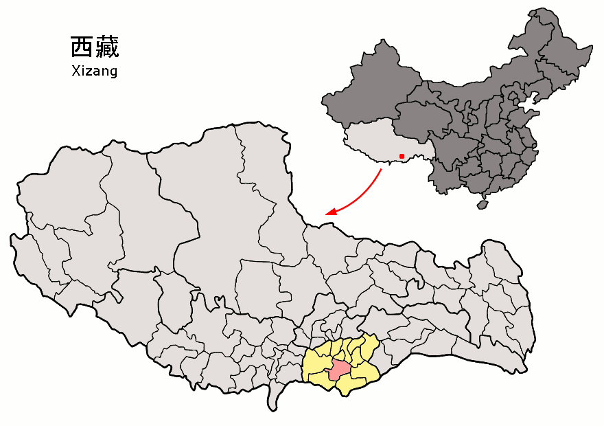 Location of Comai County (pink) and Shannan Prefecture (yellow) within Tibet (Xizang) autonomous region of China